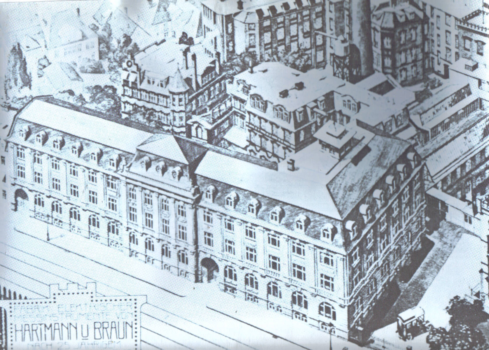 Frankfurt Bockenheim, Hartmann & Braun AG, zum 25.jährigen Firmenjubiläum 1907